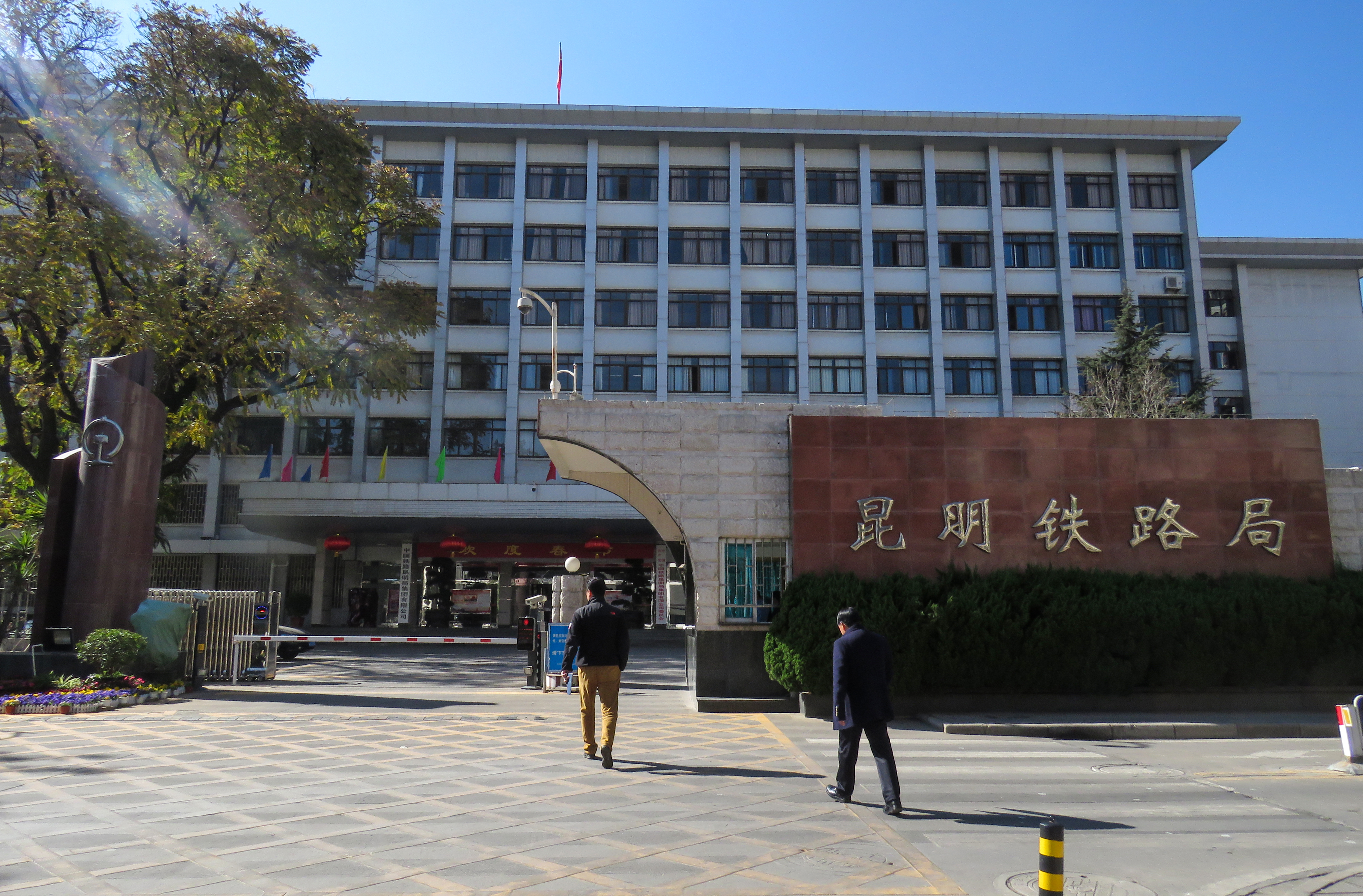 It is said that this HQ building was built on the site of former Kunming South Railway Station on Kunming–Haiphong Railway (better known in China as Yunnan-Vietnam, or Dianyue Railway). The surrounding spots are mostly named after Nanzhan (south railway station).